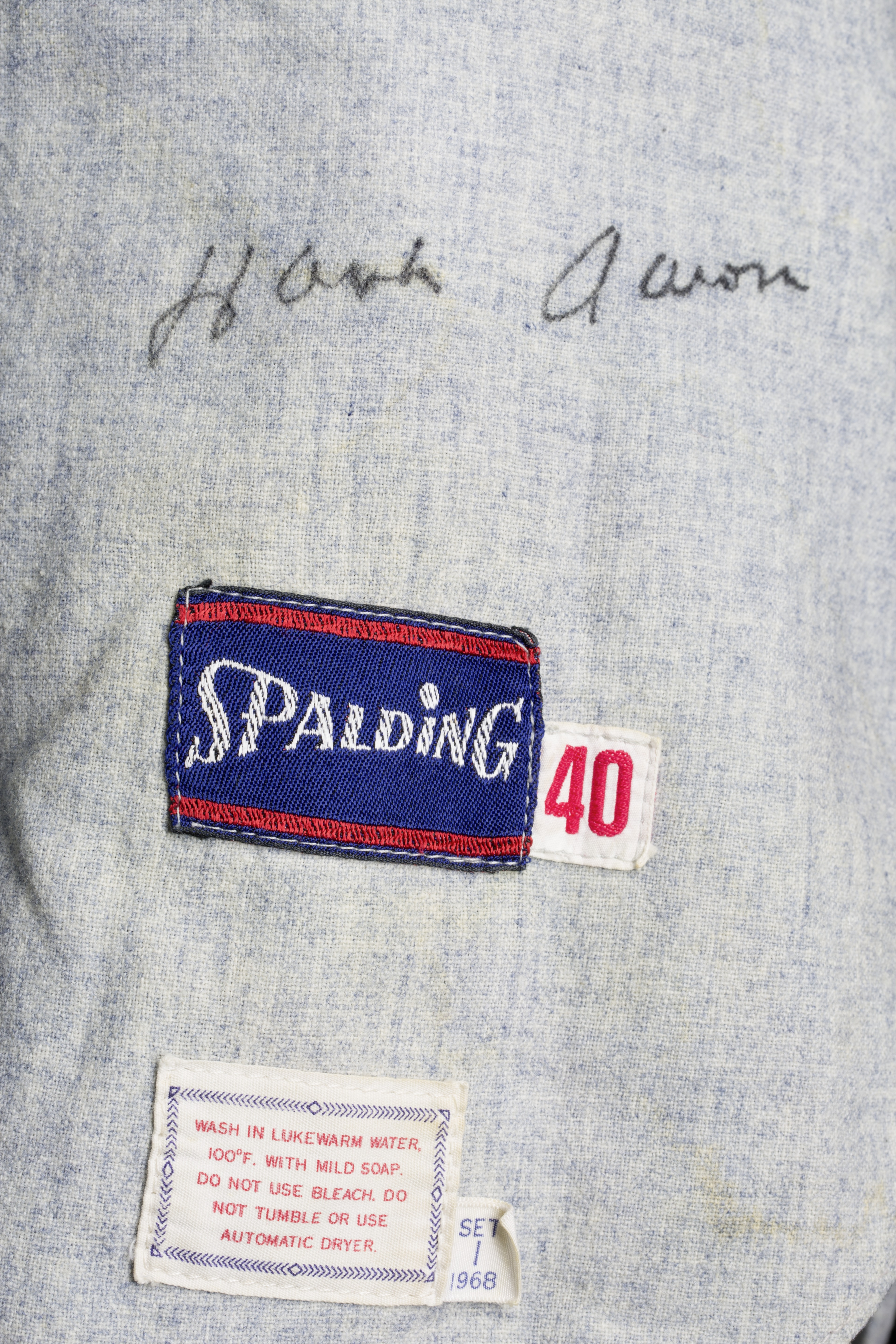 Atlanta Braves "away" or "road" jersey worn by Hank Aaron during the 1968 or 1969 MLB season. Jersey is grey in color with blue and red stitched type on front and back. Type on front chest area reads, [Braves]. Type on back reads, [44]. Patch on PR sleeve features an MLB logo with red type that reads, [100th ANNIVERSARY]. Patch on PL sleeve features a caricatured illustration of a Native American's face. Hank Aaron autograph in lower portion of jersey's front. Next to signature are several labels including a Spalding label and a size "40" label. Label with blue ink on inside of neckline reads, [44 40 68].